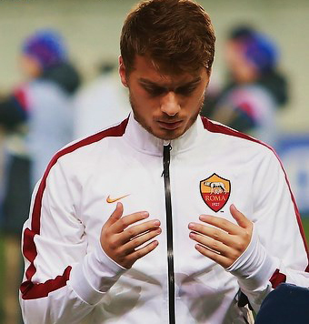 Adem Ljajić